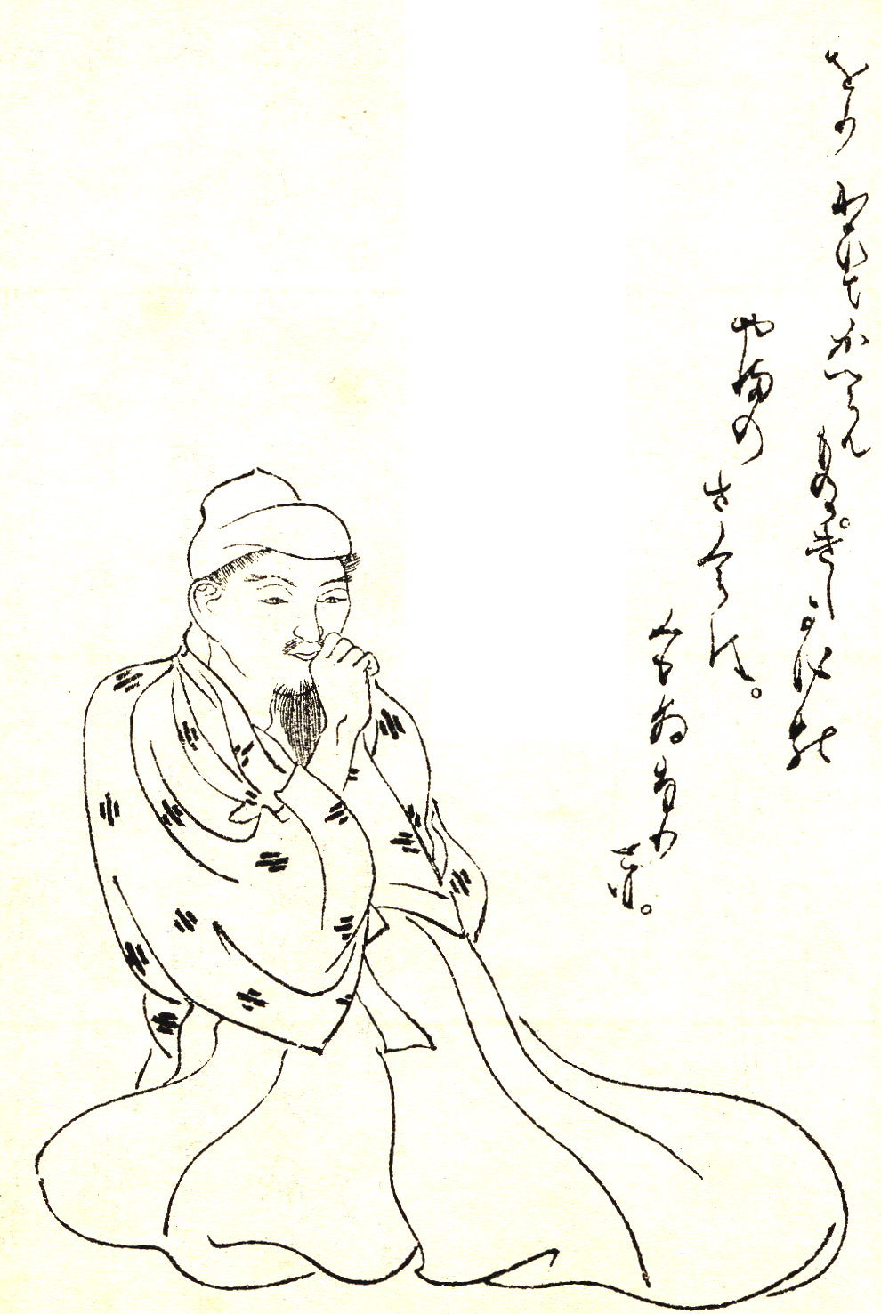 Mibu no Tadami (壬生忠見) was a middle Heian period waka poet and Japanese nobleman.This picture was drawn by Kikuchi Yosai（菊池容斎） who was a painter in Japan.